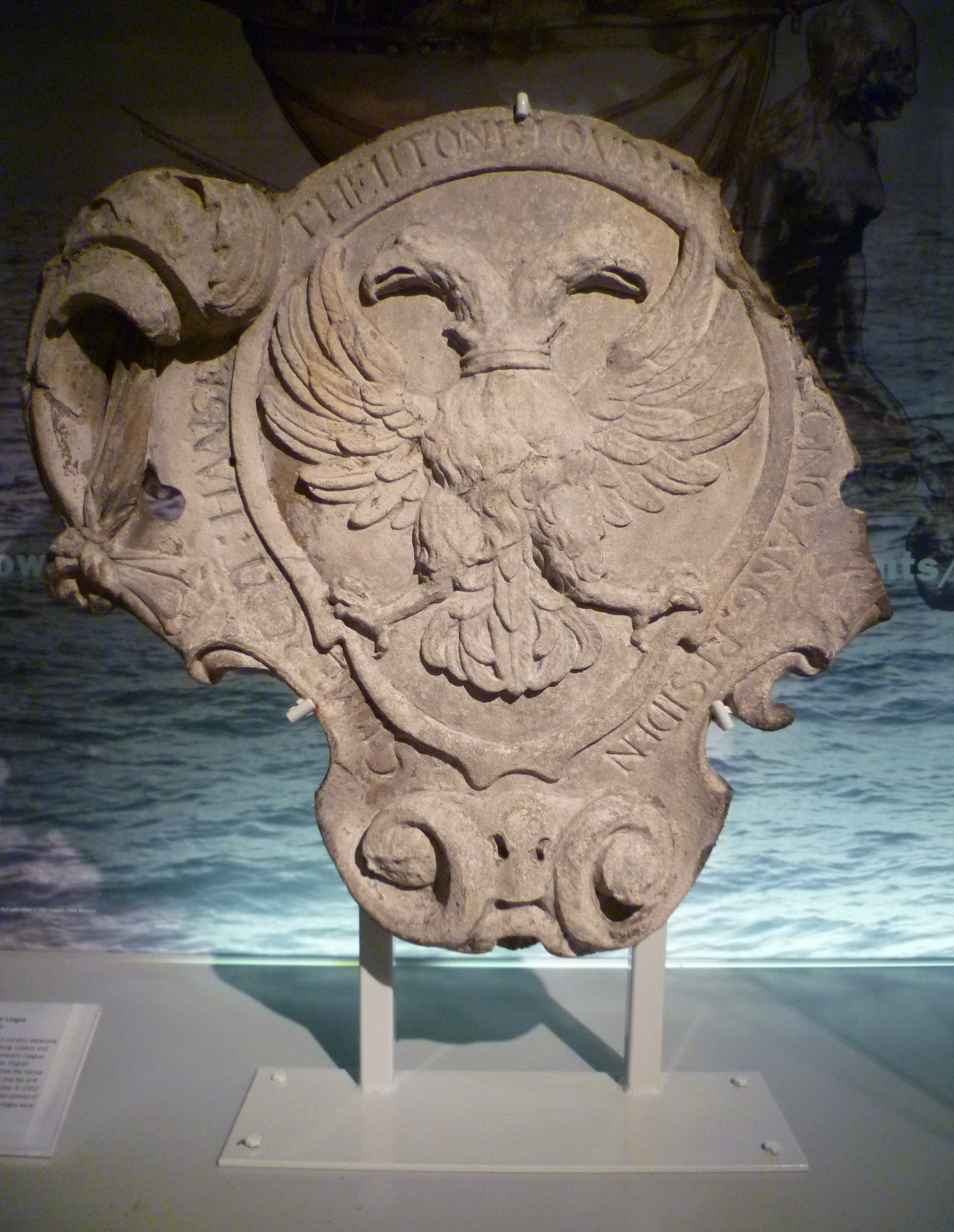 Arms of the Hanseatic League by Gabriel Cibber (c.1670), on display in the Museum of London